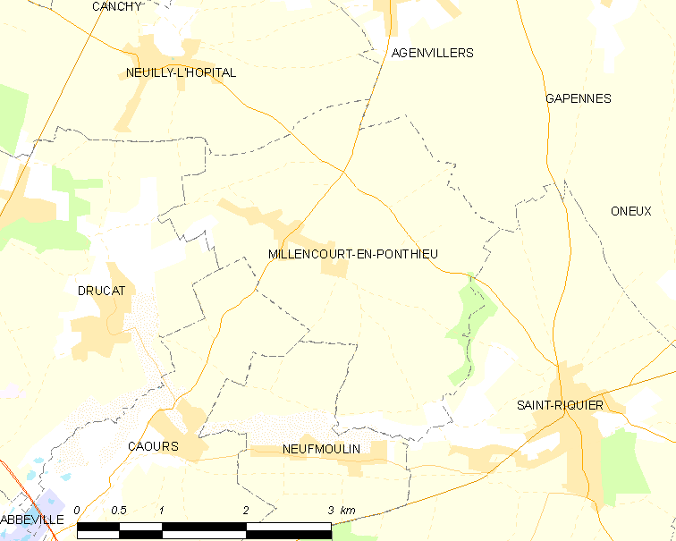 Map of French municipality Millencourt-en-Ponthieu